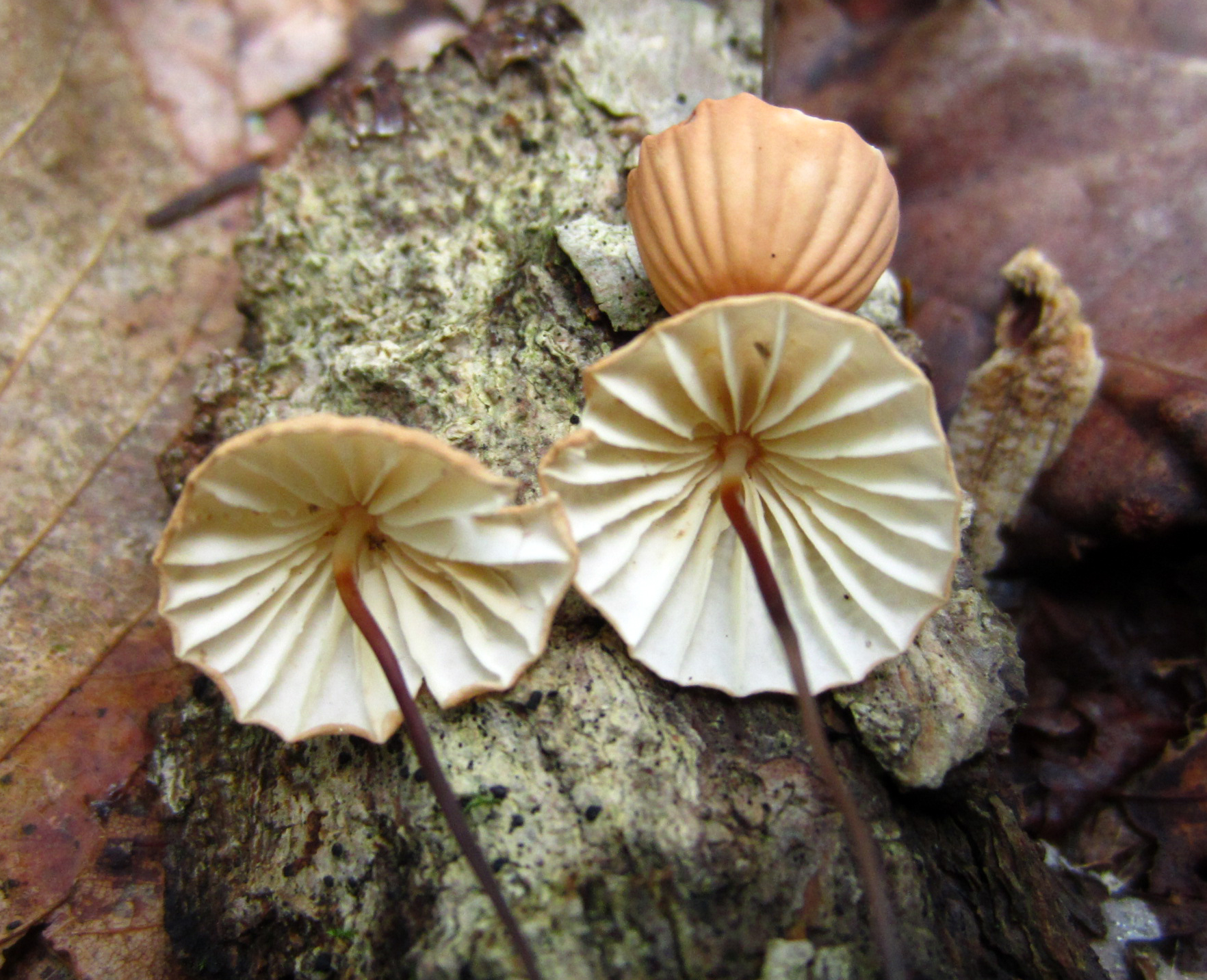 Fruit bodies of the agaric fungus Marasmius siccus (Schwein.) Fr. Specimens found in Berks Co., Pennsylvania, USA.